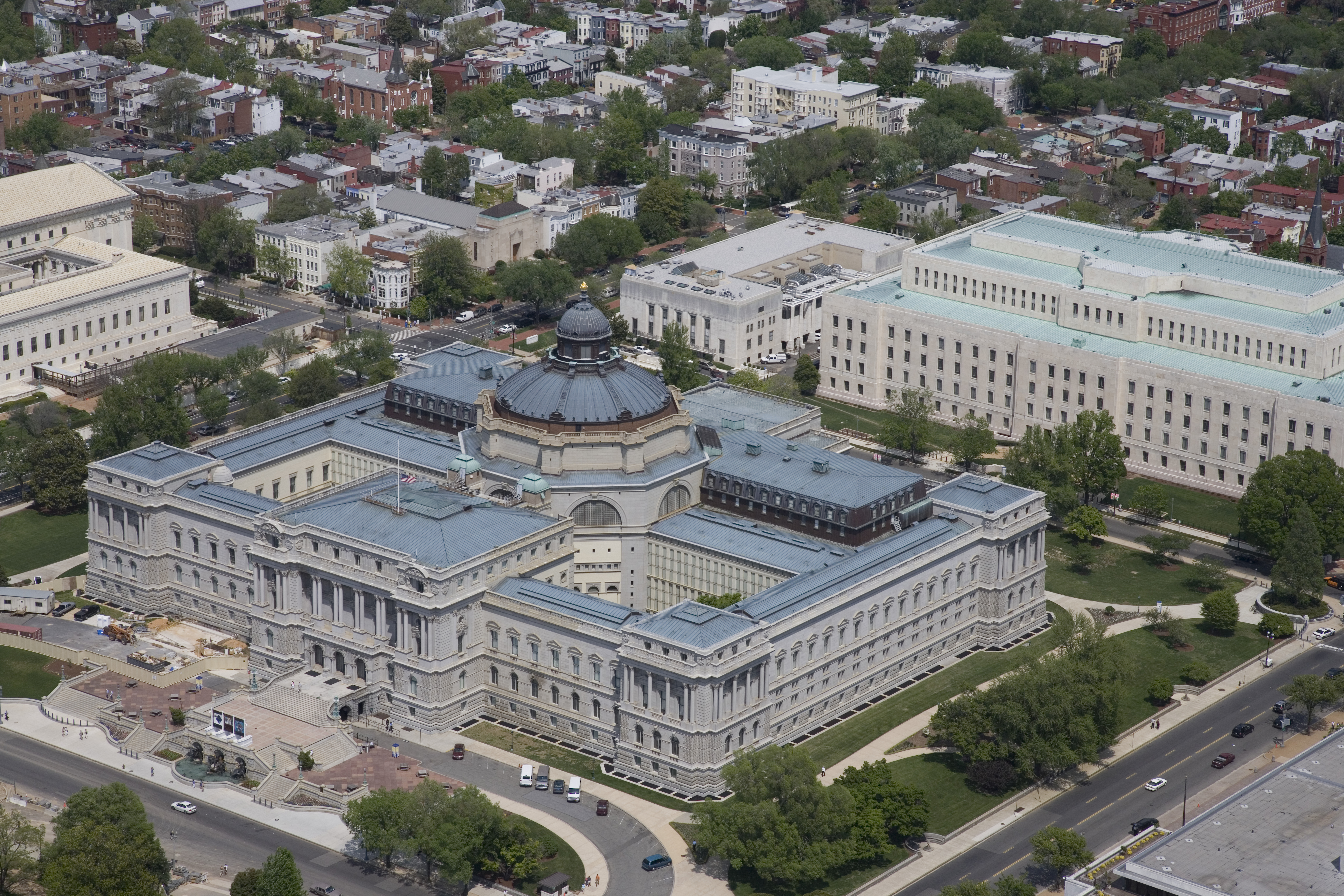 Thomas Jefferson Building Aerial by Carol M. Highsmith